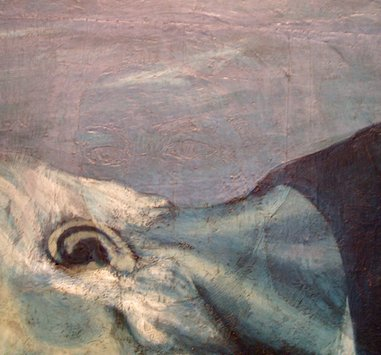 Photo taken by Tom S.